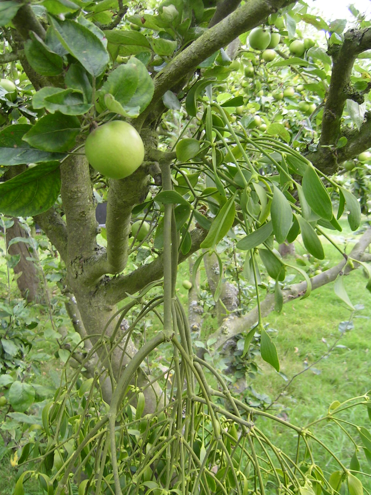 Mistletoe, growing on an apple tree in Essex, England